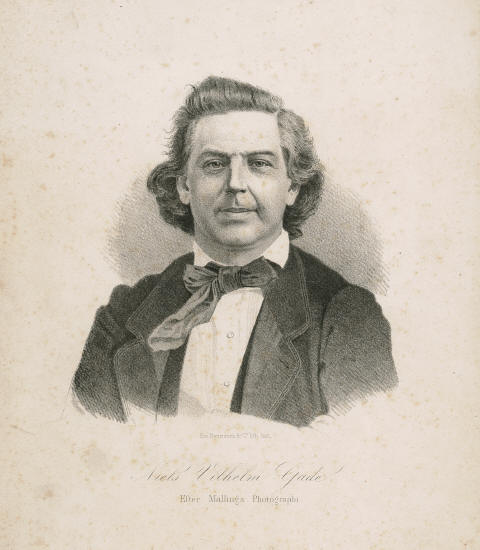 Portrait of Niels Gade, Danish composer. Original in Hans Christian Andersen Museum in Odense, Denmark.